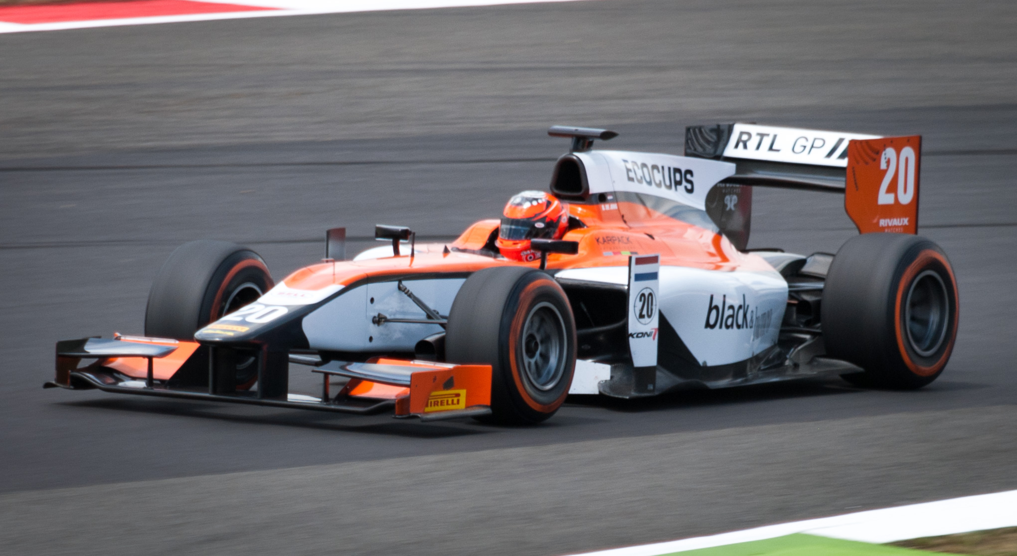 Daniël de Jong driving for MP Motorsport at Silverstone. Round 5 of the 2014 GP2 Series Championship.